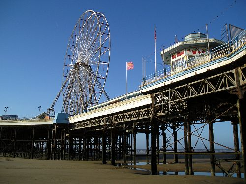 Photograph taken by myself, Helen Creighton in 2006, copyrighted: use with permission as long as Helen Creighton is credited.